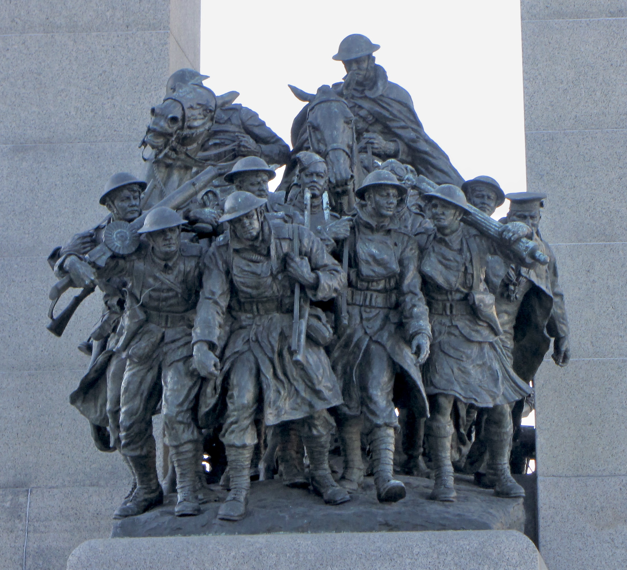 Base of National War Memorial, Ottawa, Ontario, Canada